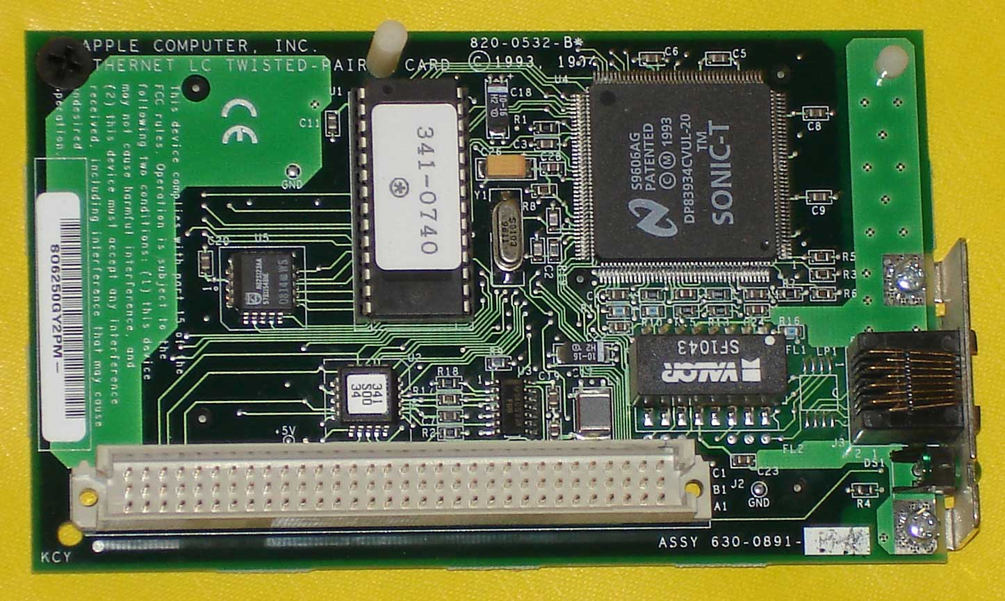 Apple Macintosh LC PDS (Processor Direct Slot) ethernet card. Photo taken by me 17:50, 6 February 2006 (UTC)